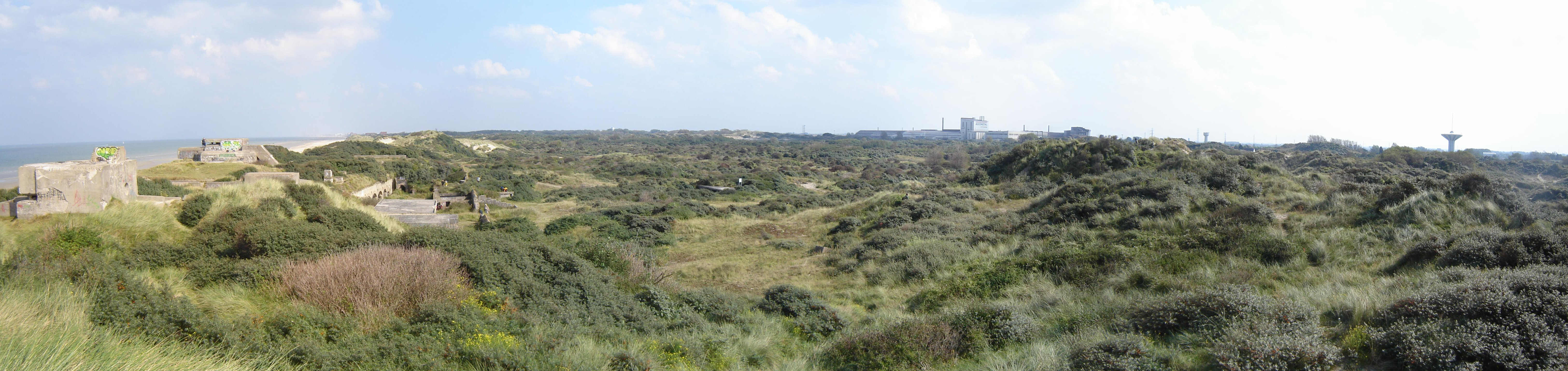 Artillery bunkers from the Second World War, dunes and the Usine des Dunes in Leffrinckoucke. Leffrinckoucke, Nord, Nord-Pas-de-Calais, France